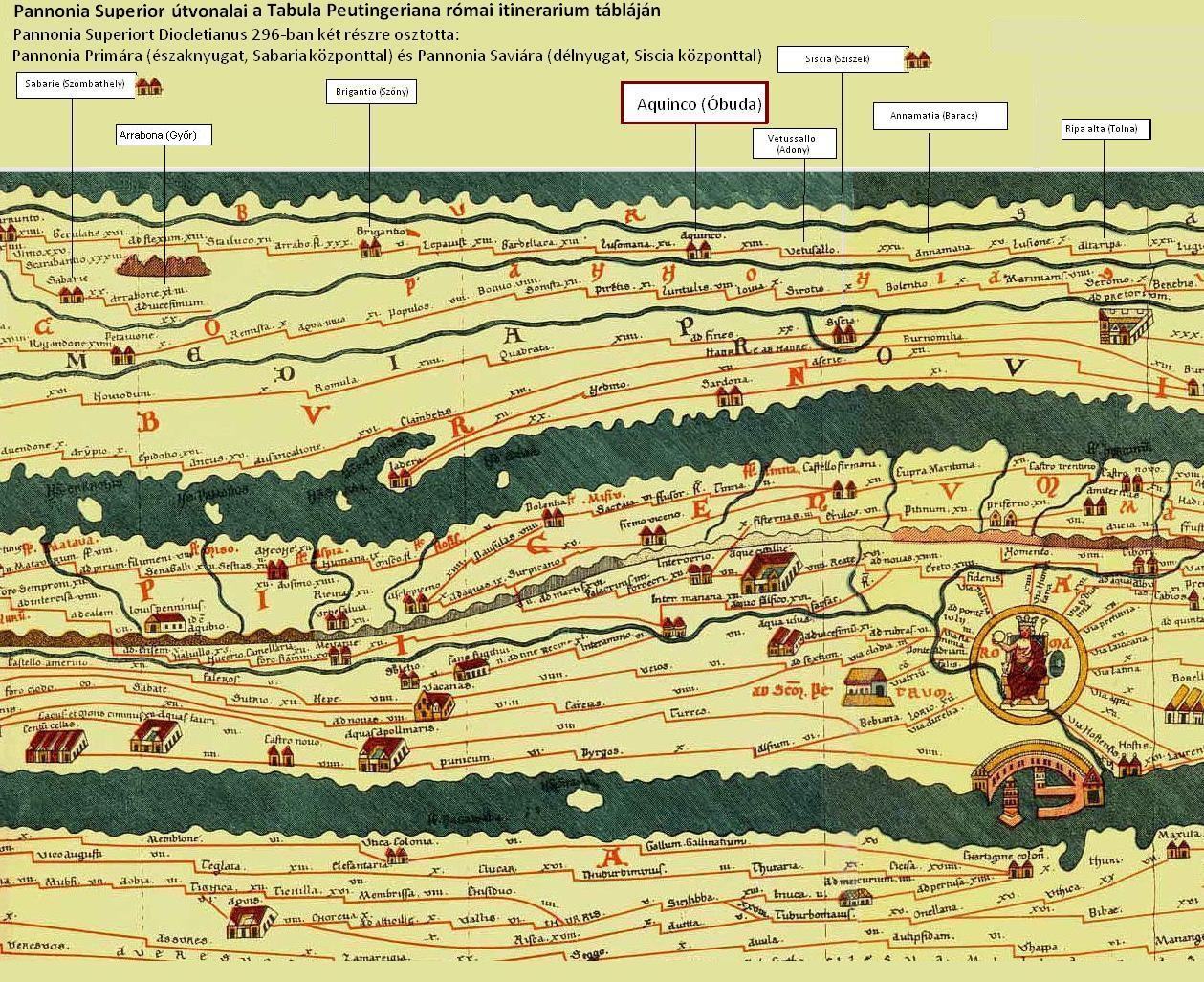 Tabula Peutingeriana, 1-4th century CE. Facsimile edition by Conradi Millieri, 1887/1888 - Pannonia Superior